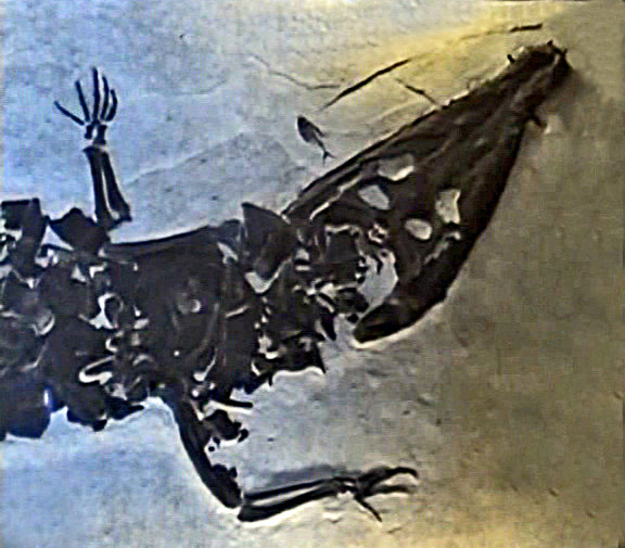 Borealosuchus wilsoni, from Green River Formation, at the Fossil Butte National Monument